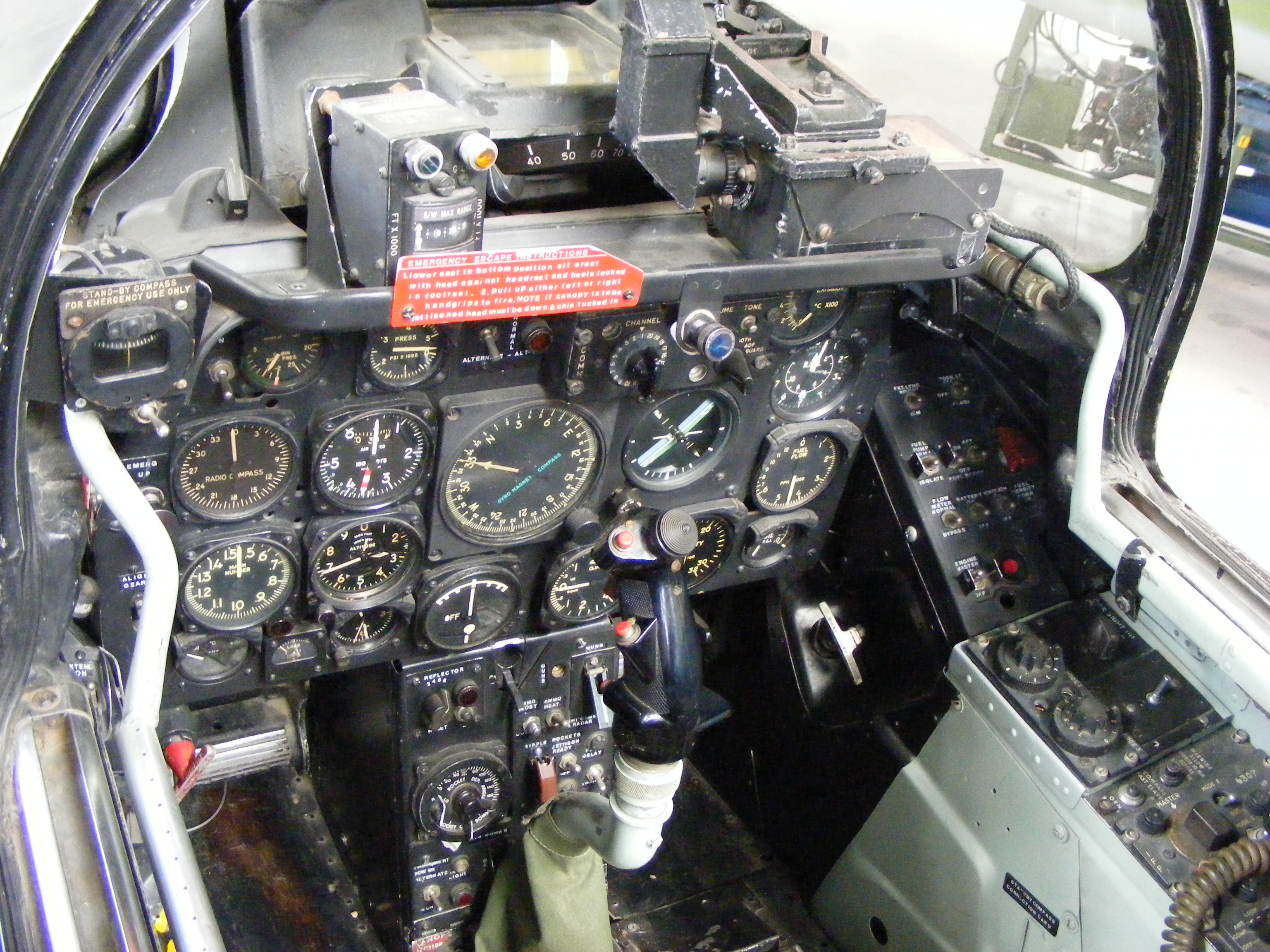 Cockpit of RAAF Avon Sabre A94-974. On display at the Classic Jets Fighter Museum, Parafield airport, Adelaide, South Australia.